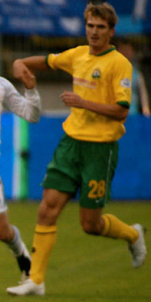 Vladimir Kuzmichyov in action for FC Kuban